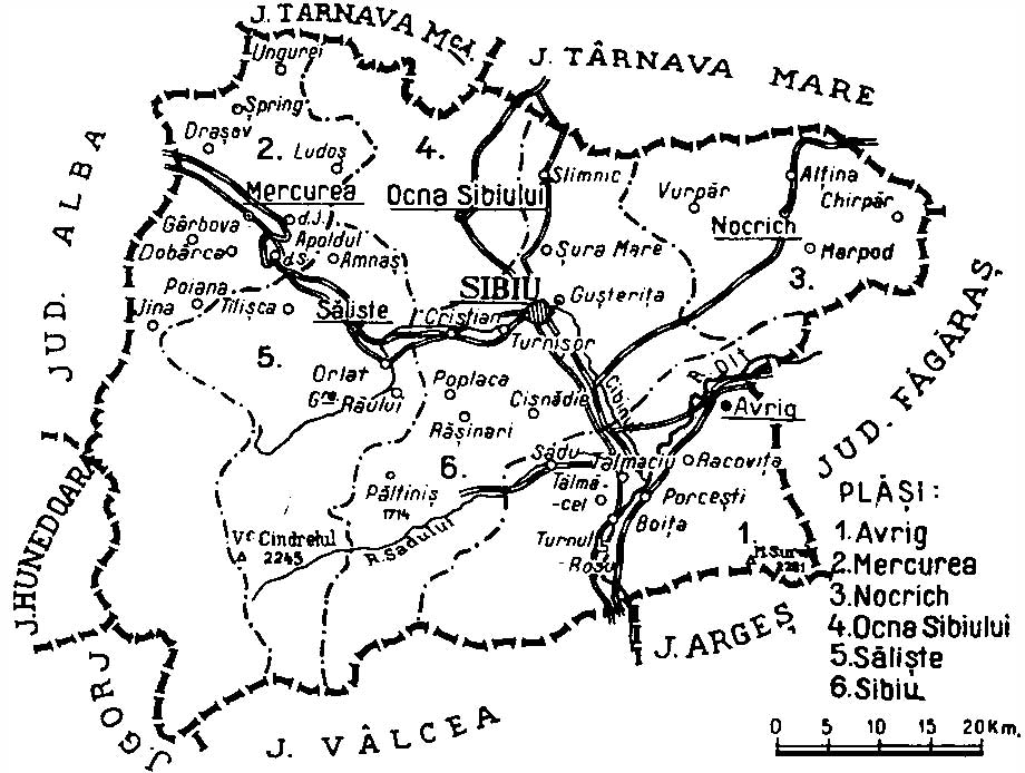 Map of Sibiu interwar county, Kingdom of Romania (1938).